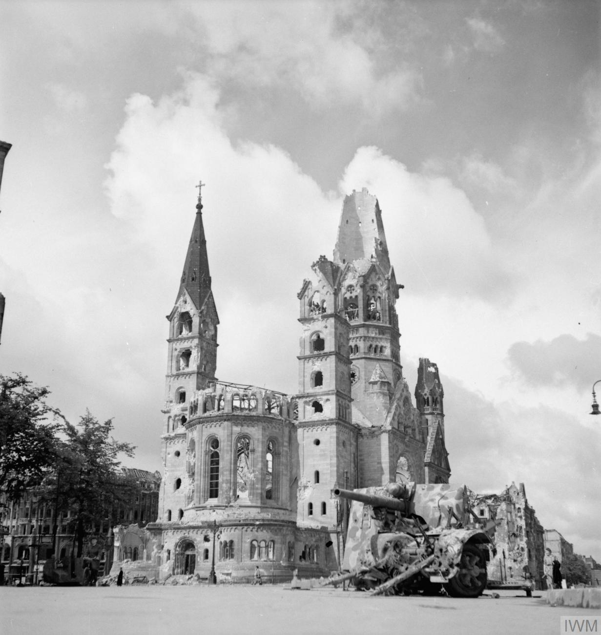 The war damaged Kaiser Wilhelm Memorial Church, Berlin, 7 July 1945